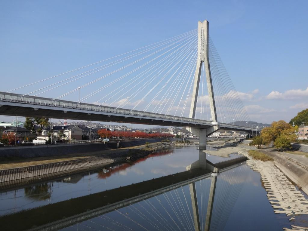 Shin-inagawa_oohashi Taken in Ikeda city Osaka prefecture.